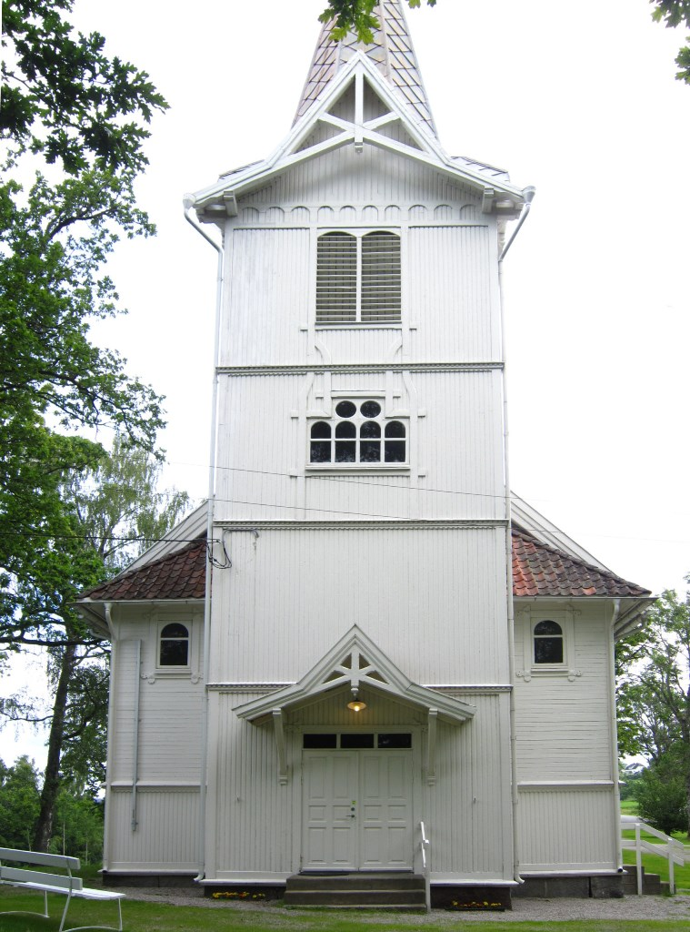 Solli church, Sarpsborg